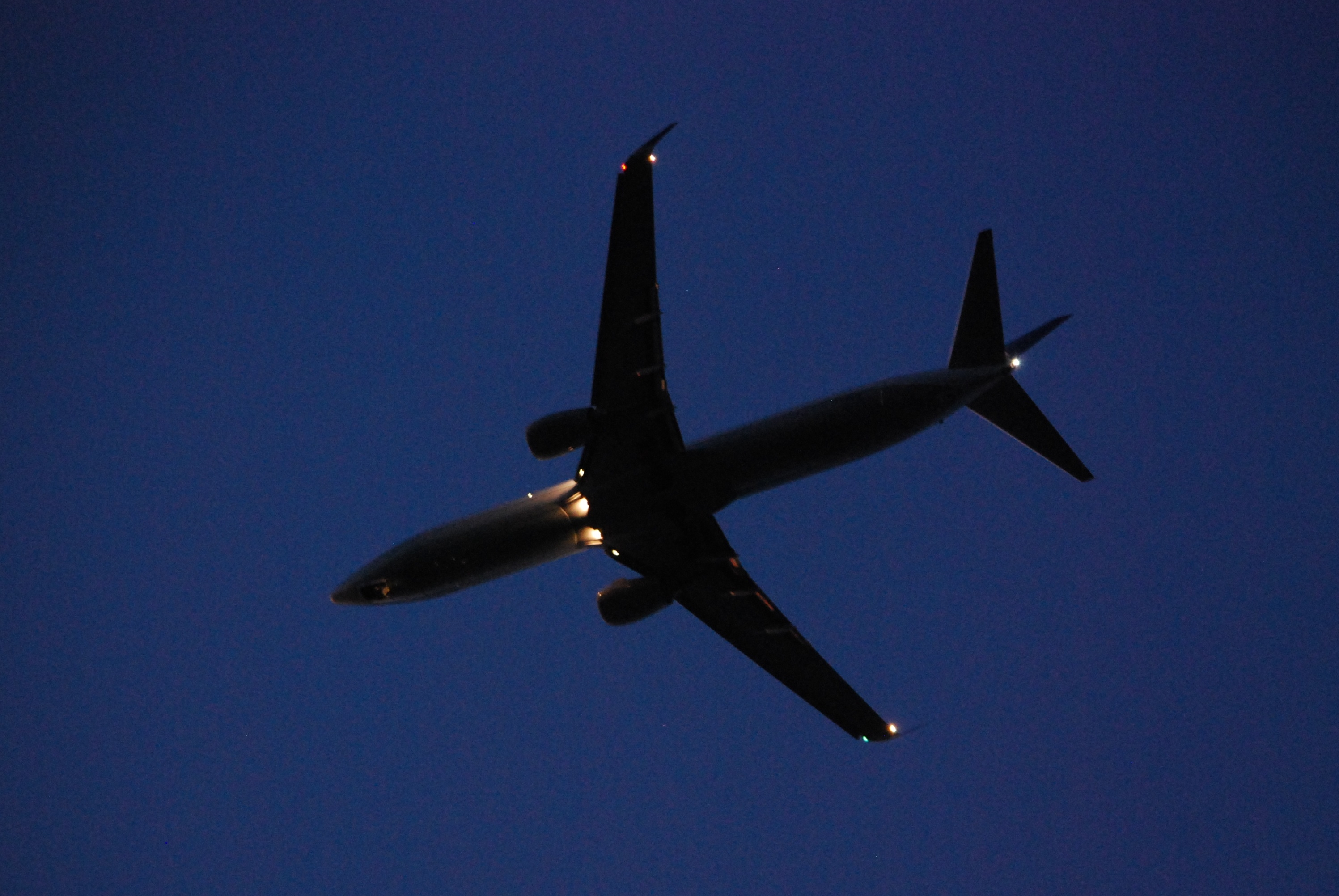 Longer, for sure, than a -800. Sky color was certainly this beautiful. What a terrific shade of blue! DSC_0463